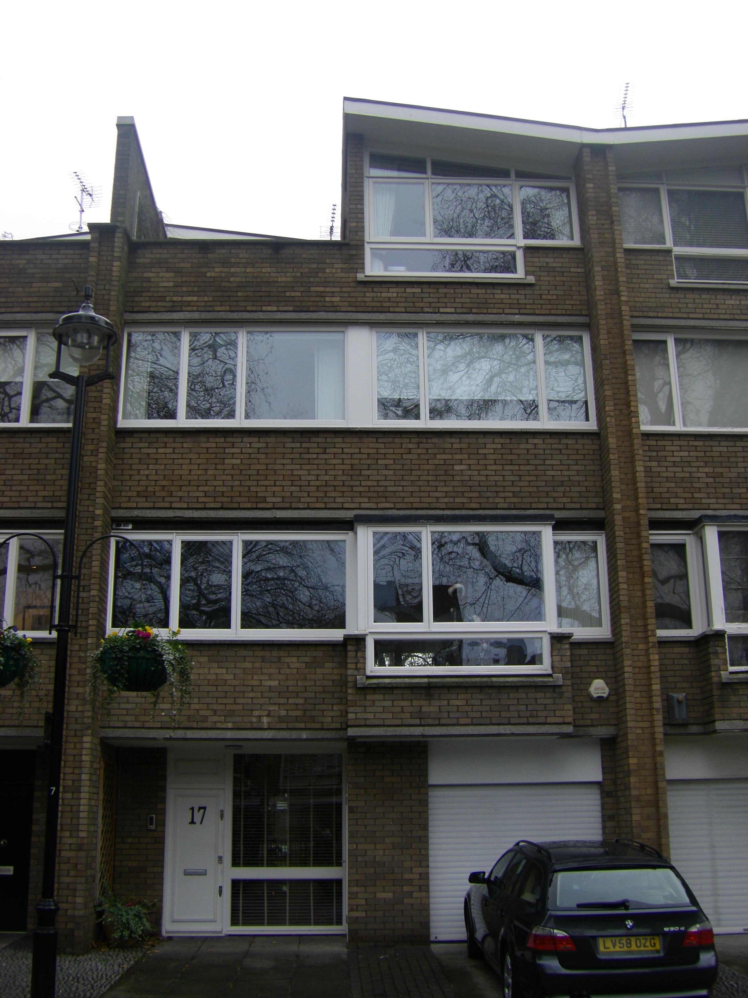 Last address of George du Maurier where he died in 1896.